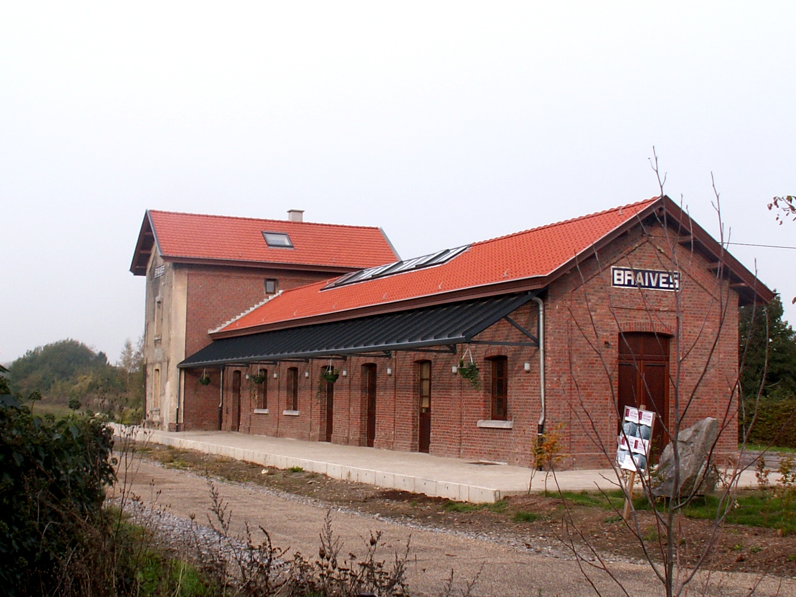 Station of Braives, on former SNCB line 127. It's now owned by the municipality of Braives and used as a local community center